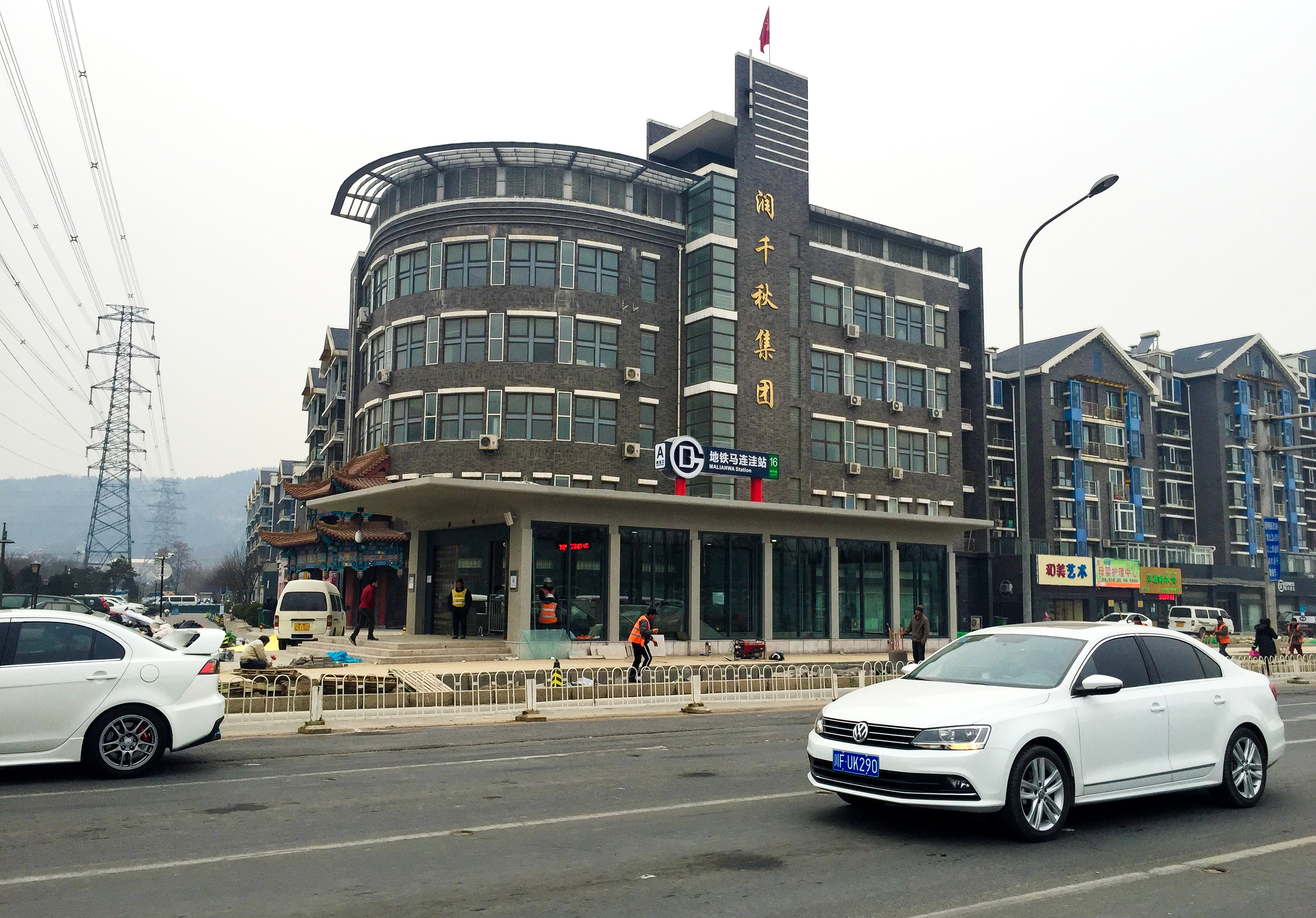 No big deal - just two exits.